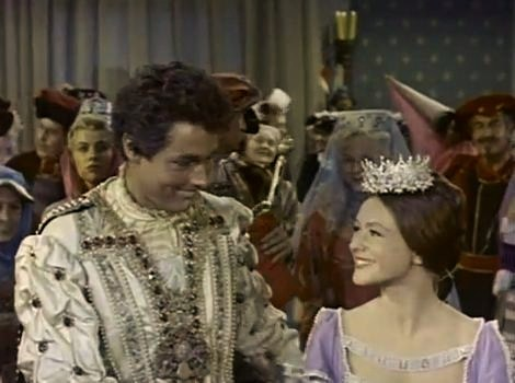 Kerwin Mathews & Judi Meredith in Jack the Giant Killer (1962) - trailer (cropped screenshot)